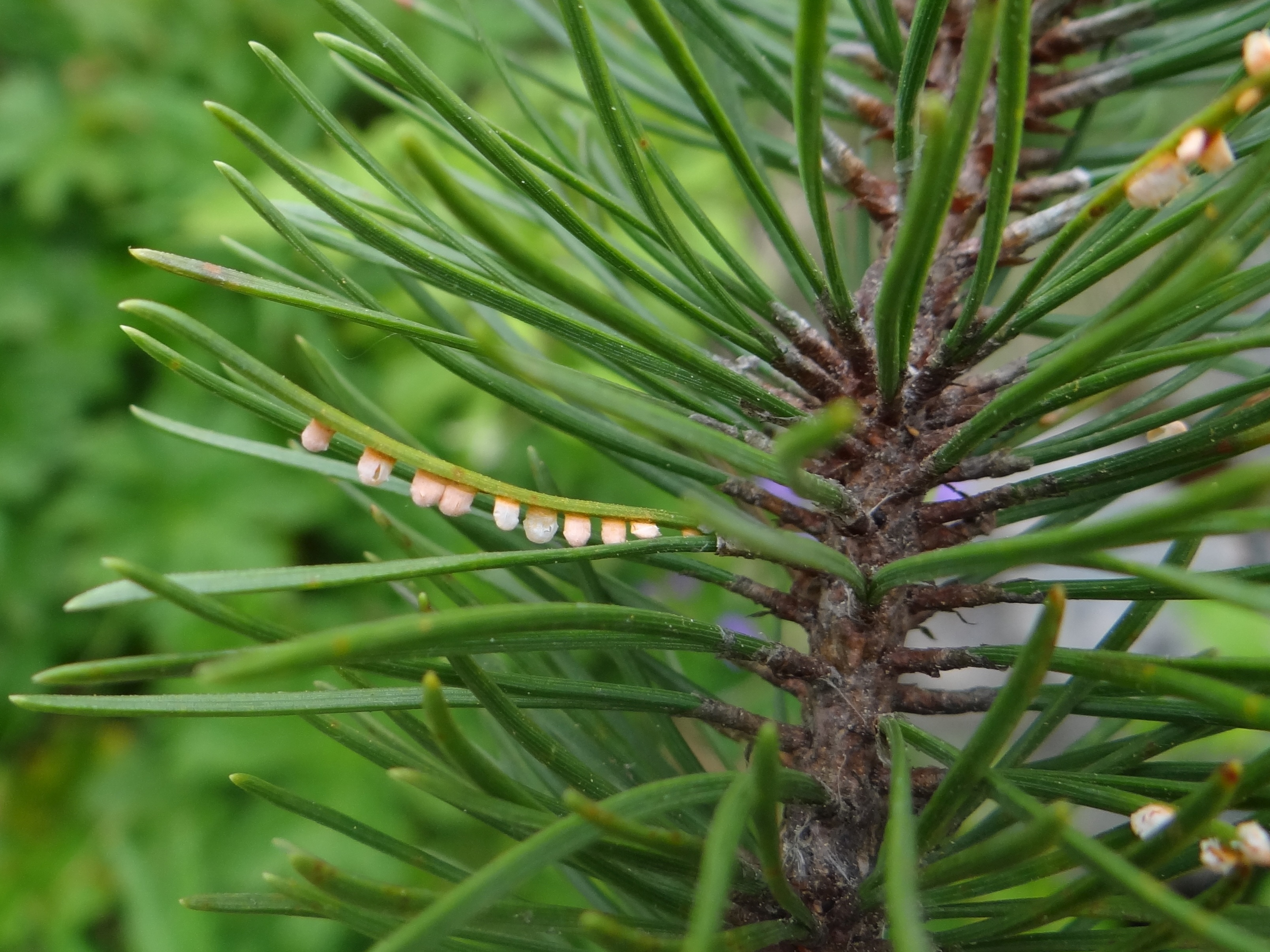 Coleosporium tussilaginis on Pinus mugo (location: Tatra Mountains, Dolina Tomanowa)